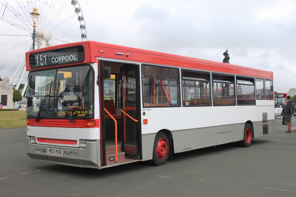 Preserved Plymouth Citybus number 53, a 1994 Volvo B6 with plaxton Pointer body (registration M53 HOD).